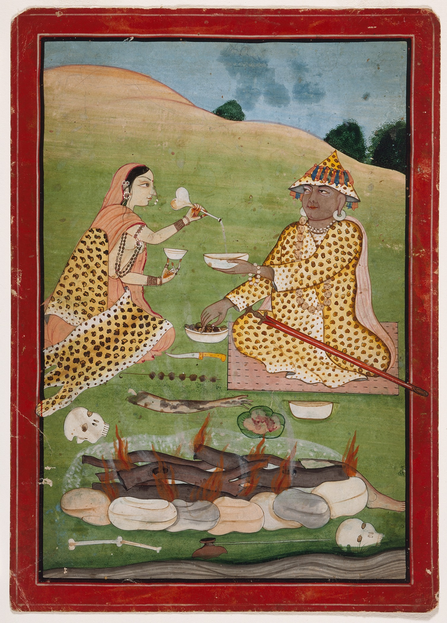 India, Himachal Pradesh, Nurpur, circa 1790 Drawings; watercolors Opaque watercolor and gold on paper Indian Art Special Purpose Fund (M.77.63.1) South and Southeast Asian Art